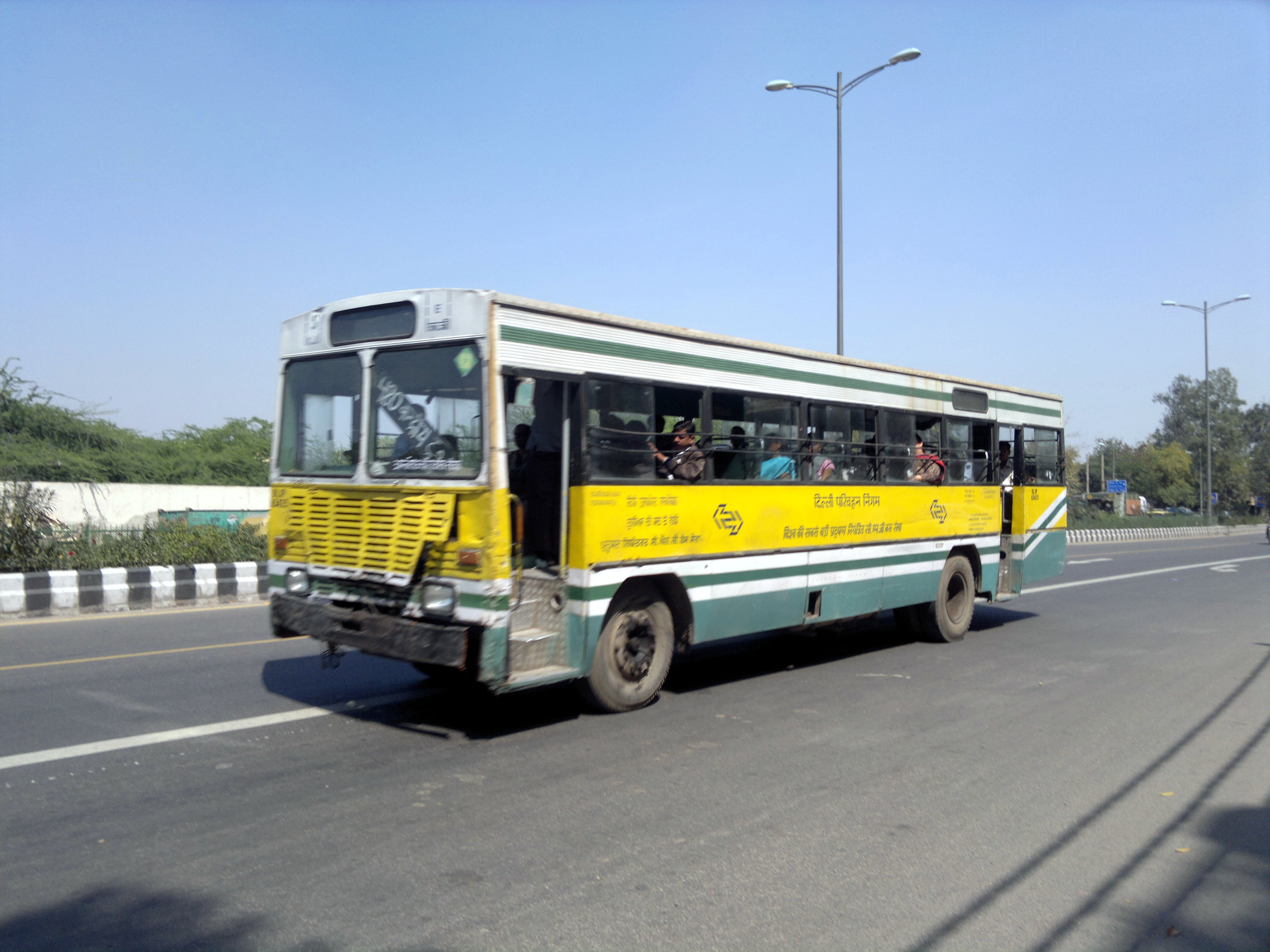 The Delhi Transport Corporation (DTC) operates the world's largest fleet of CNG-powered buses. After Pune, Delhi was the second city in India to have an operational Bus rapid transit (BRT) system